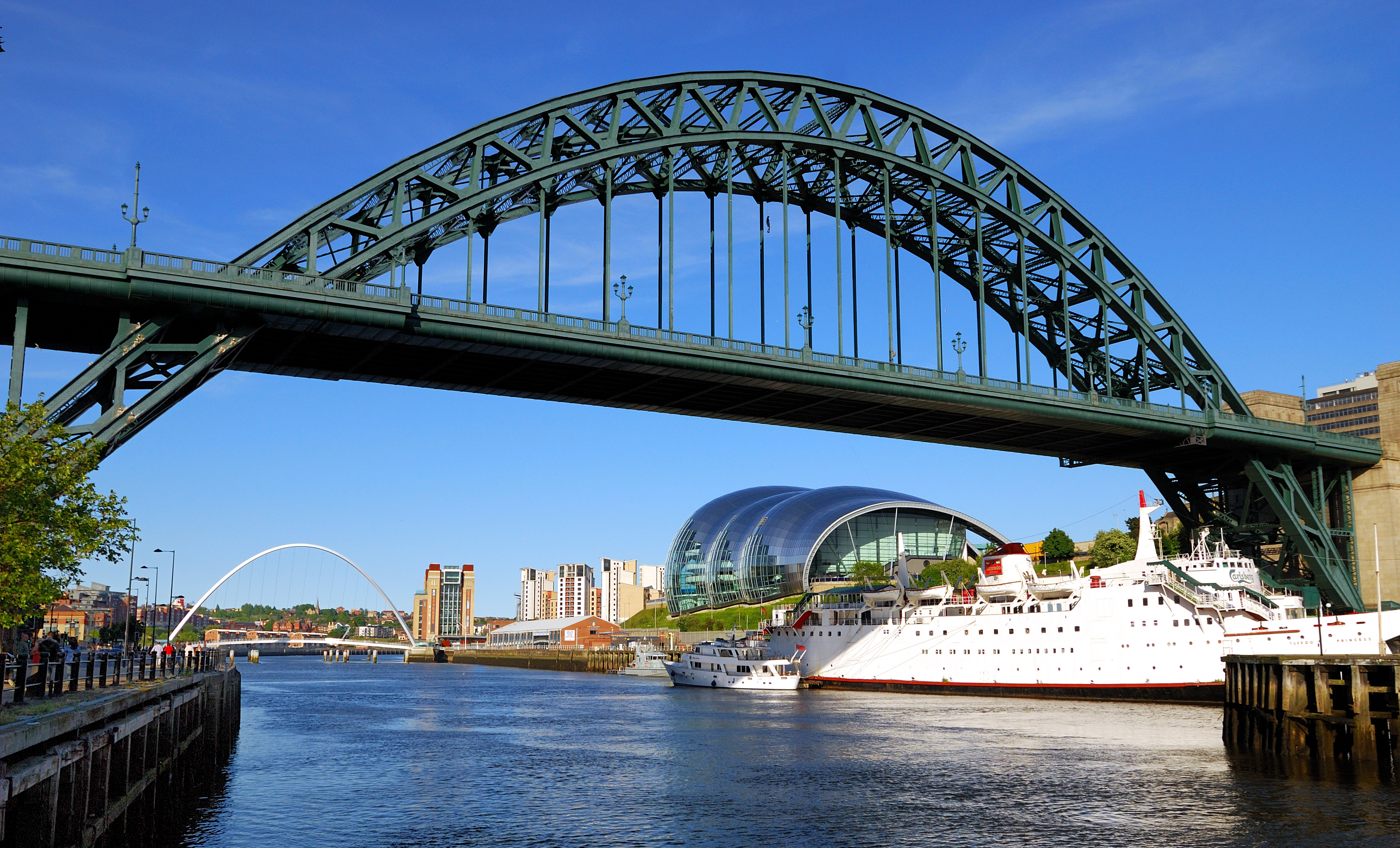 The Tyne Bridge and River Tyne in Newcastle upon Tyne, England. The Millennium Bridge, as well as the BALTIC centre and The Sage on the Gateshead side, are visible in the background. The ship is the permanently moored Tuxedo Princess floating nightclub (the former car ferry TSS Caledonian Princess). Taken using a Nikon D80 + Tokina 12-24 F4.